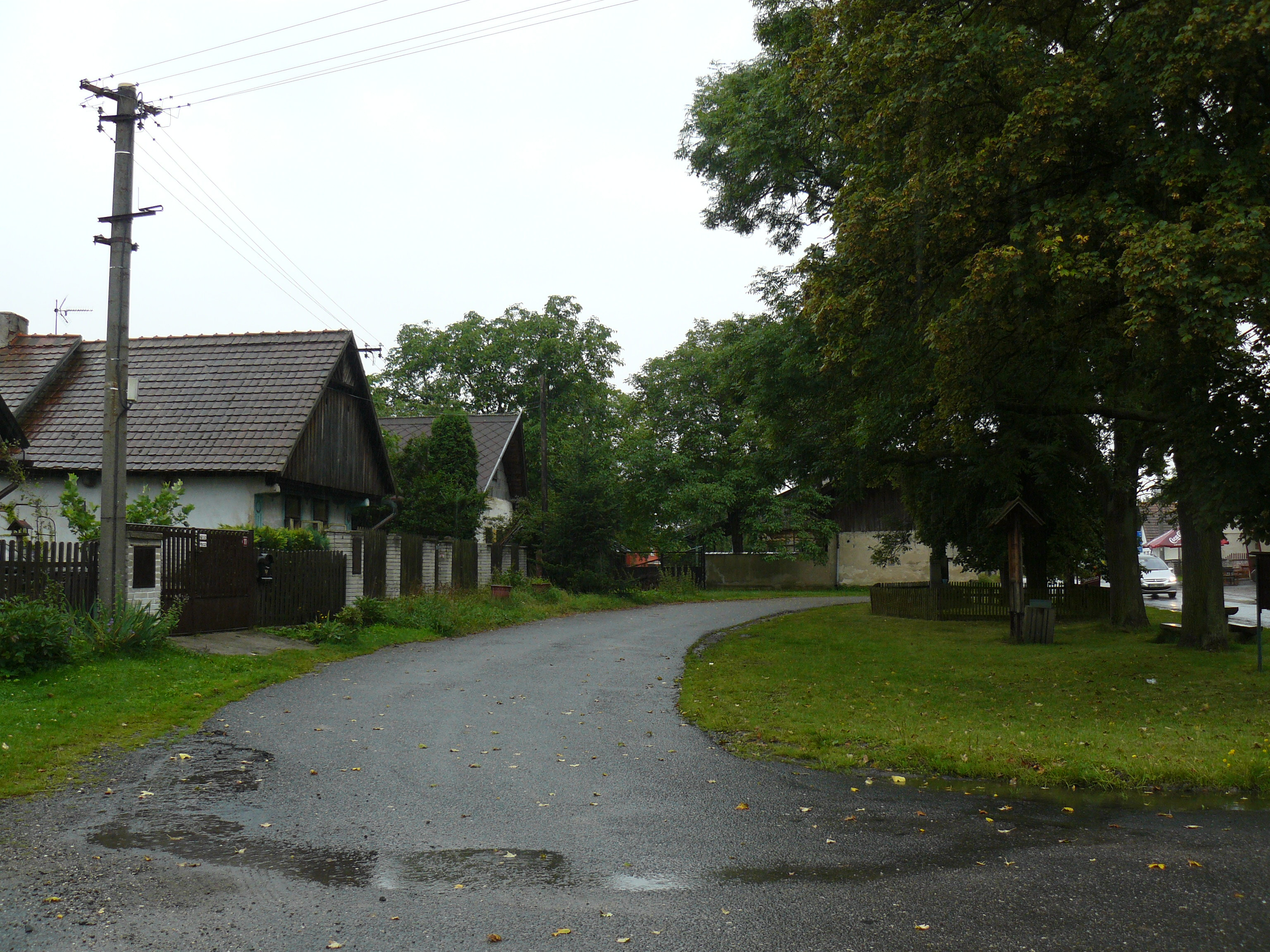 Seletice - village in Czech Republic